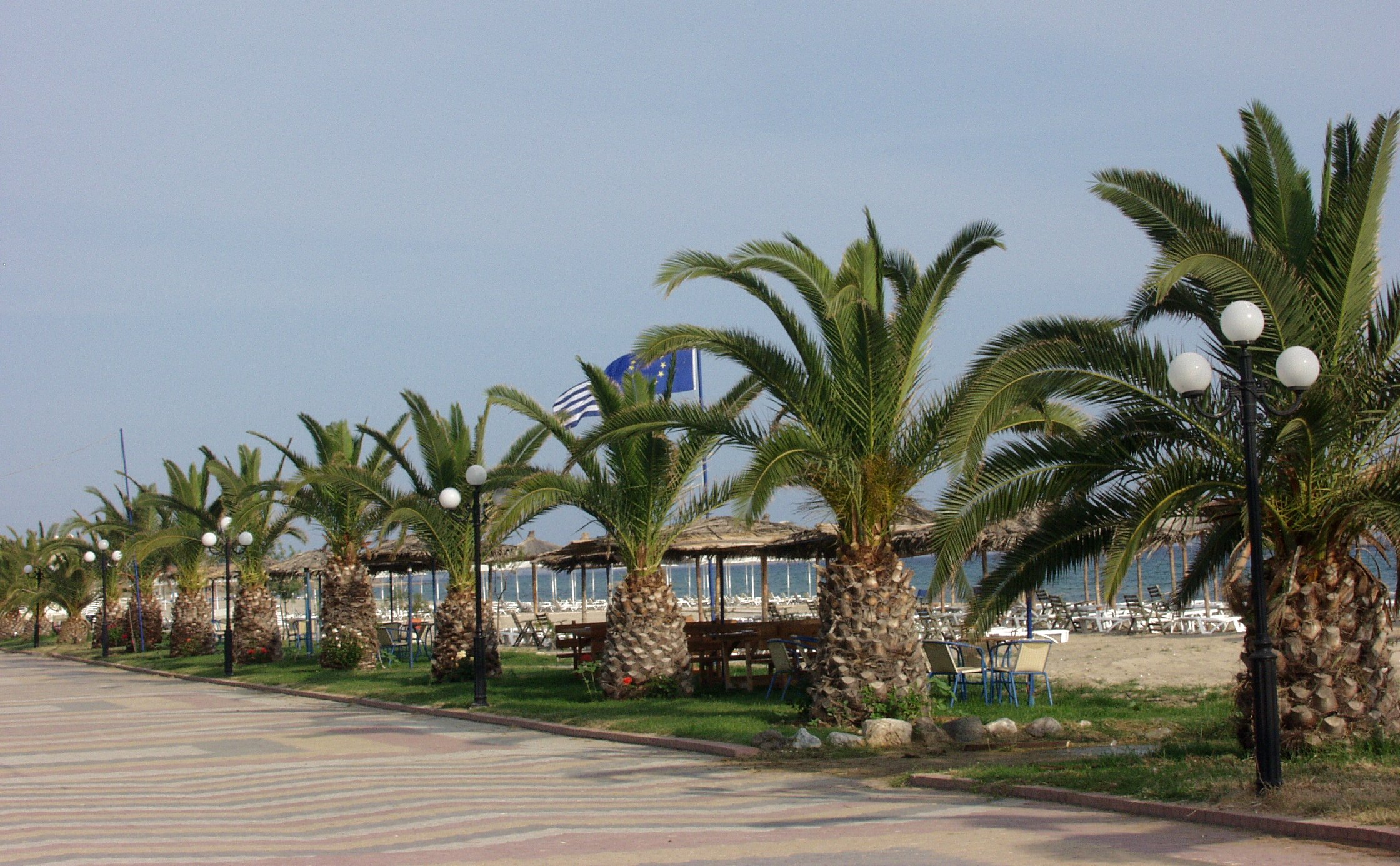 The promenade at Nea Flogita, Halkidiki, Greece.